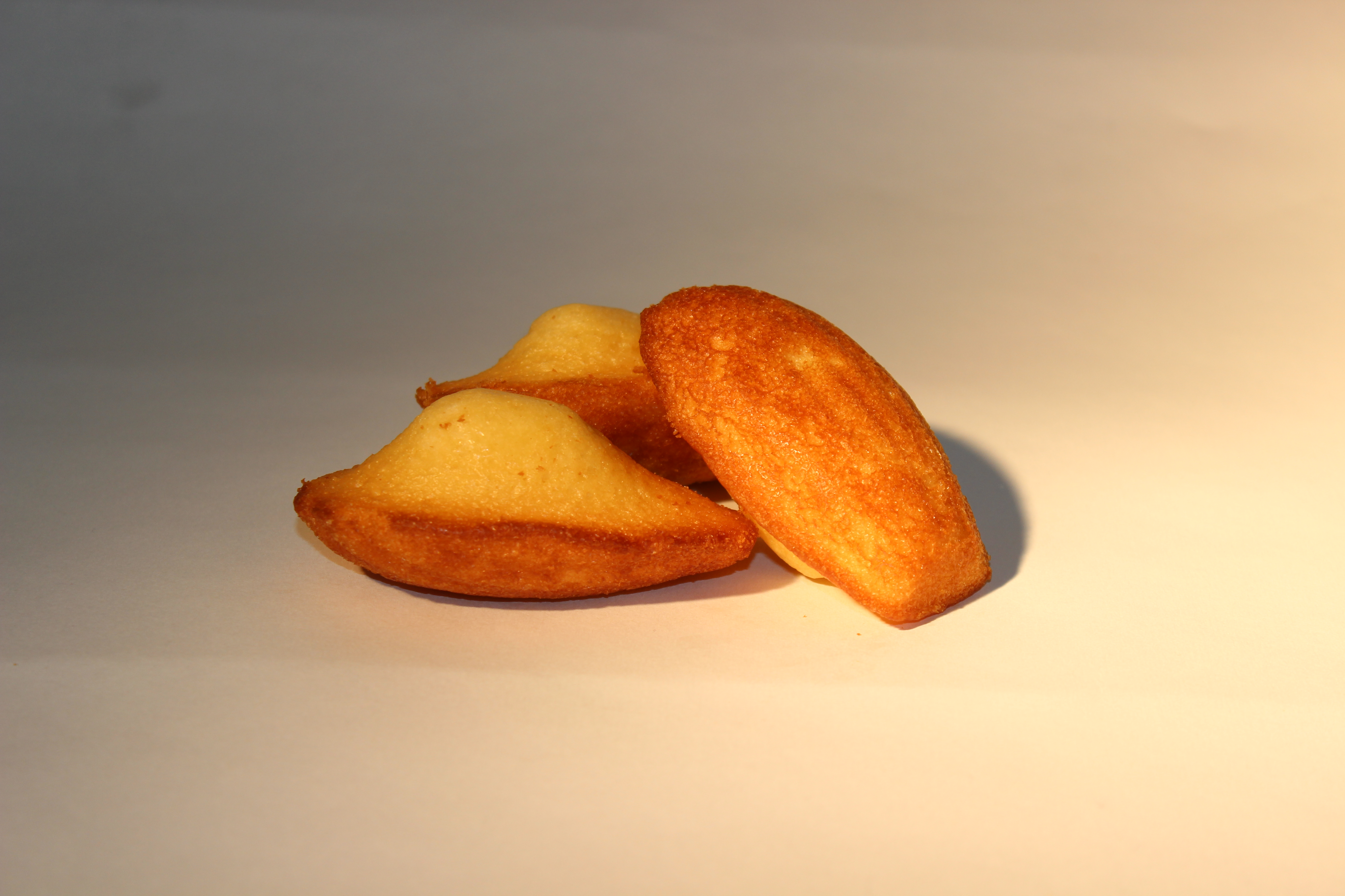 3 Madeleines